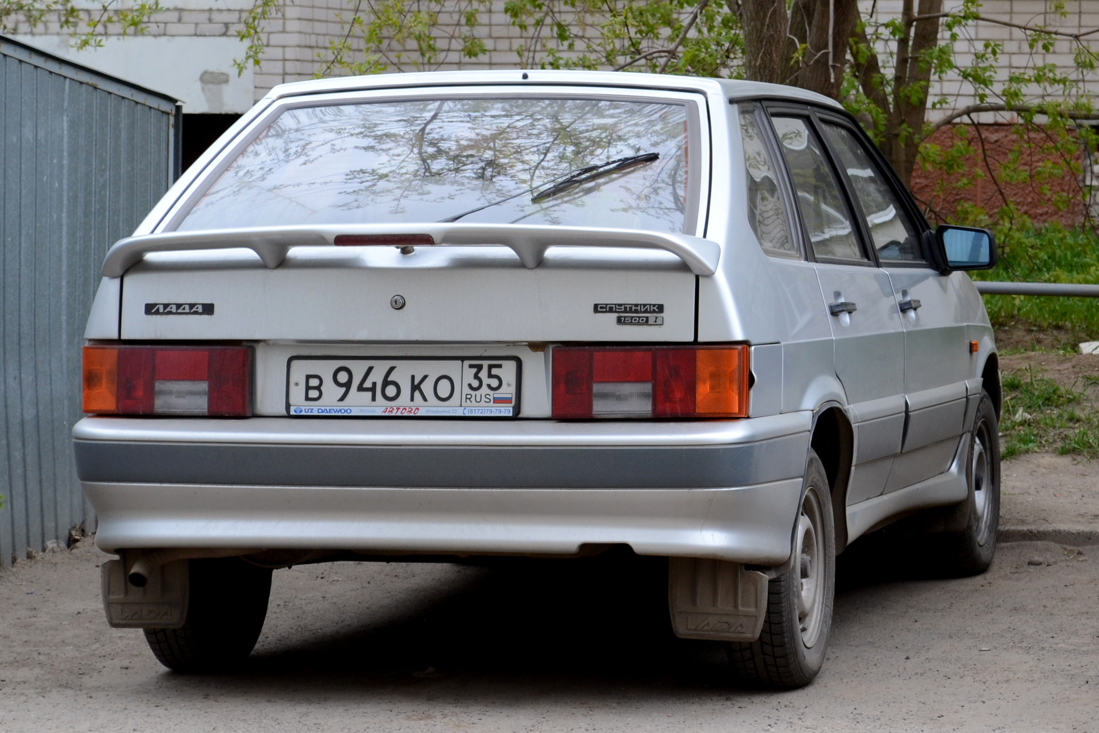 Lada Samara (VAZ-2114)